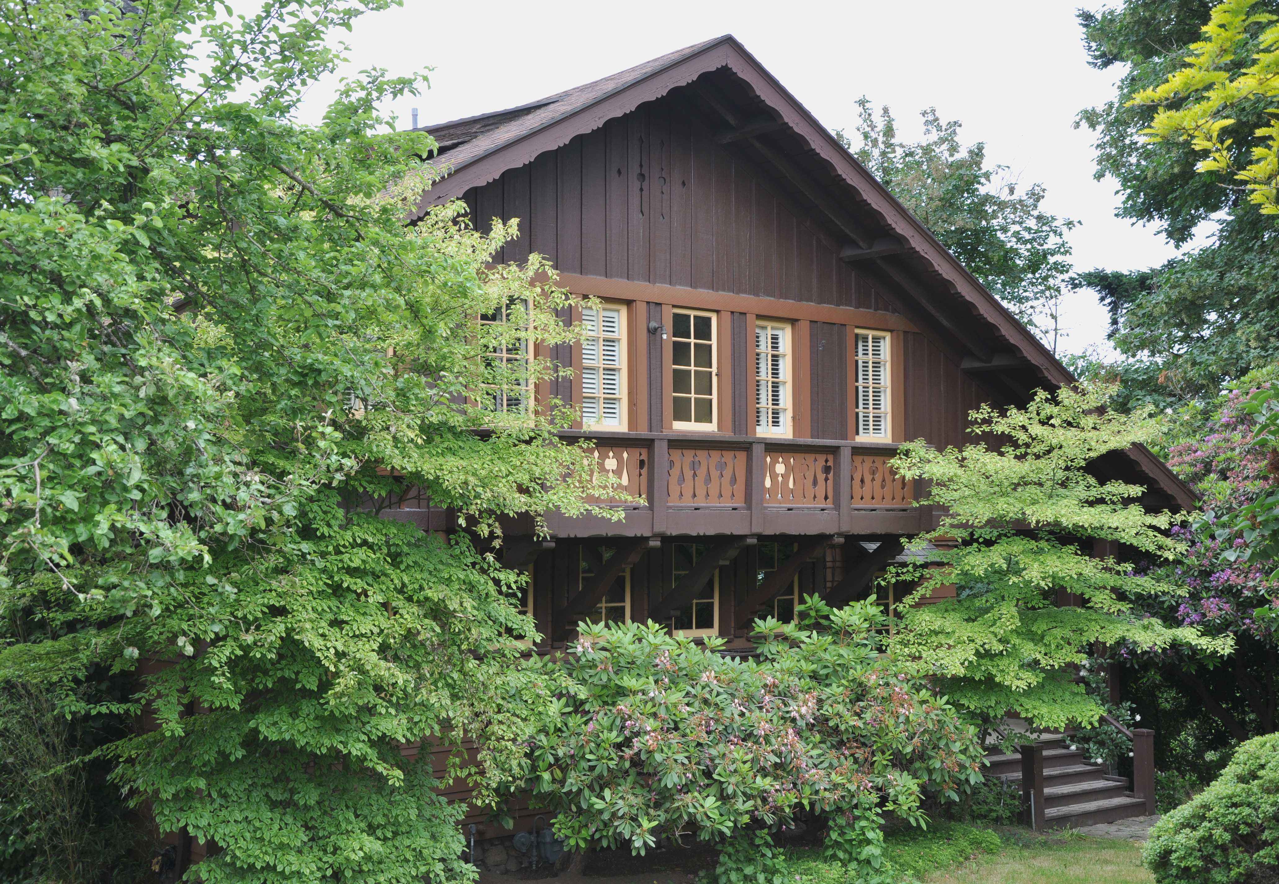 Jacobs–Wilson House in Portland in the U.S. state of Oregon. The structure is listed on the National Register of Historic Places.